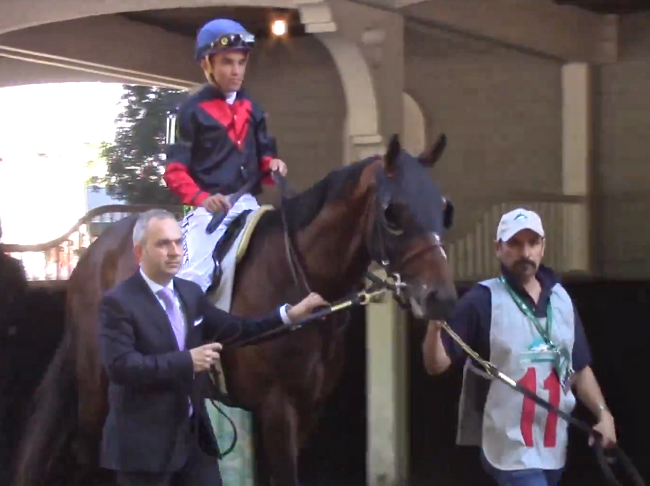 Tonalist, winner of the 2014 Belmont Stakes, being led from the saddling paddock, jockey Joel Rosario up